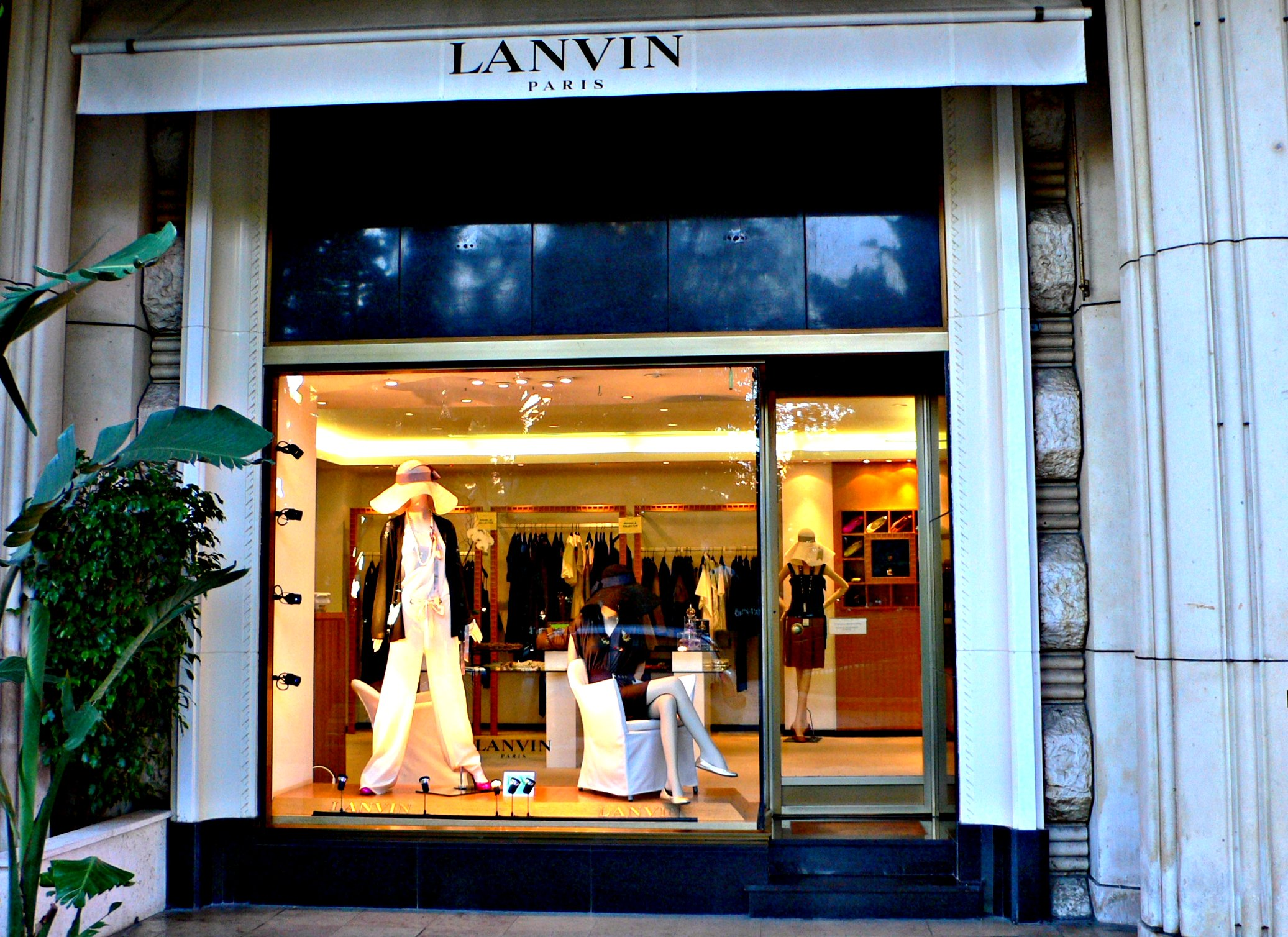 Official store by French fashion house Lanvin at Place du Casino in Monte Carlo, Monaco (2004)